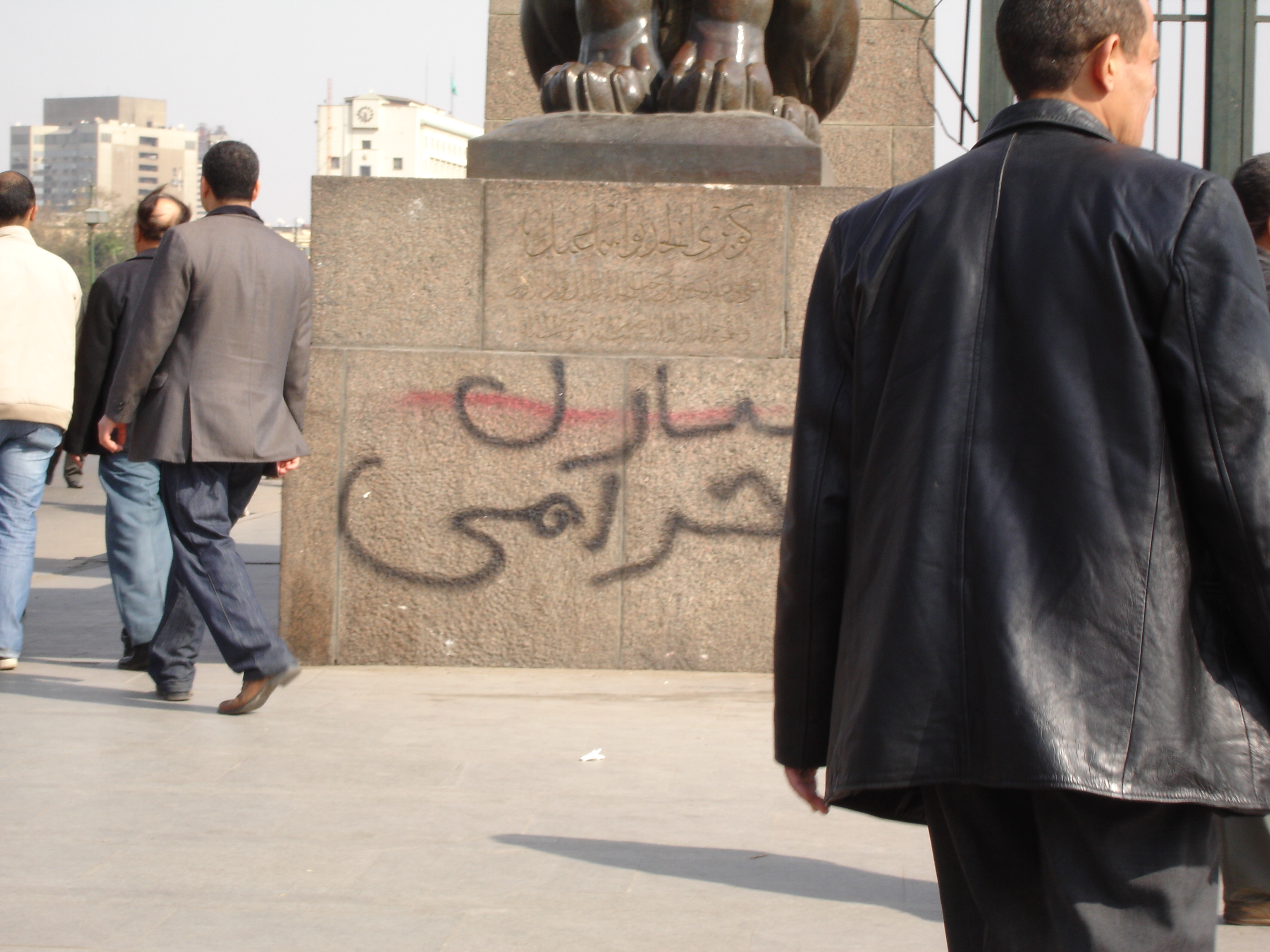 At the other bronze lion of Kasr Al Nil's base : Mubarak is a thief graffiti